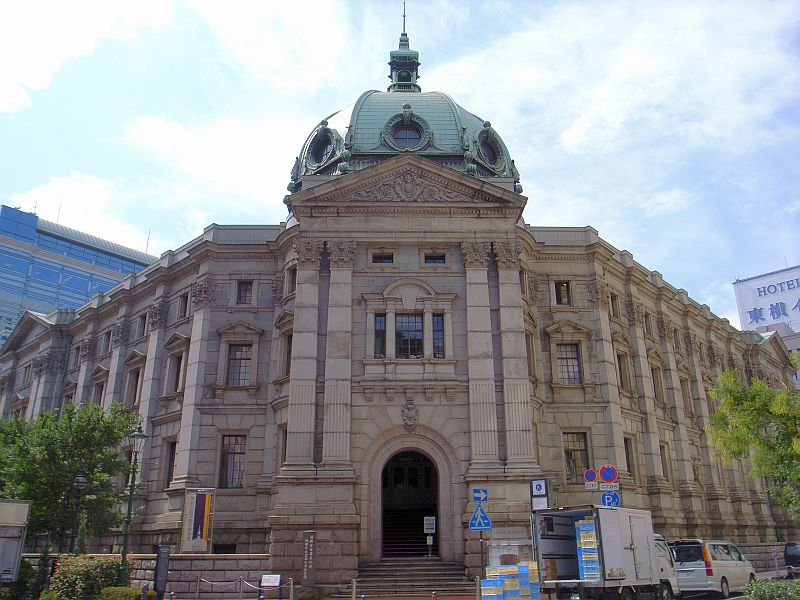 Kanagawa Prefectural Museum of Cultural History - Yokohama City, Kanagawa, Japan